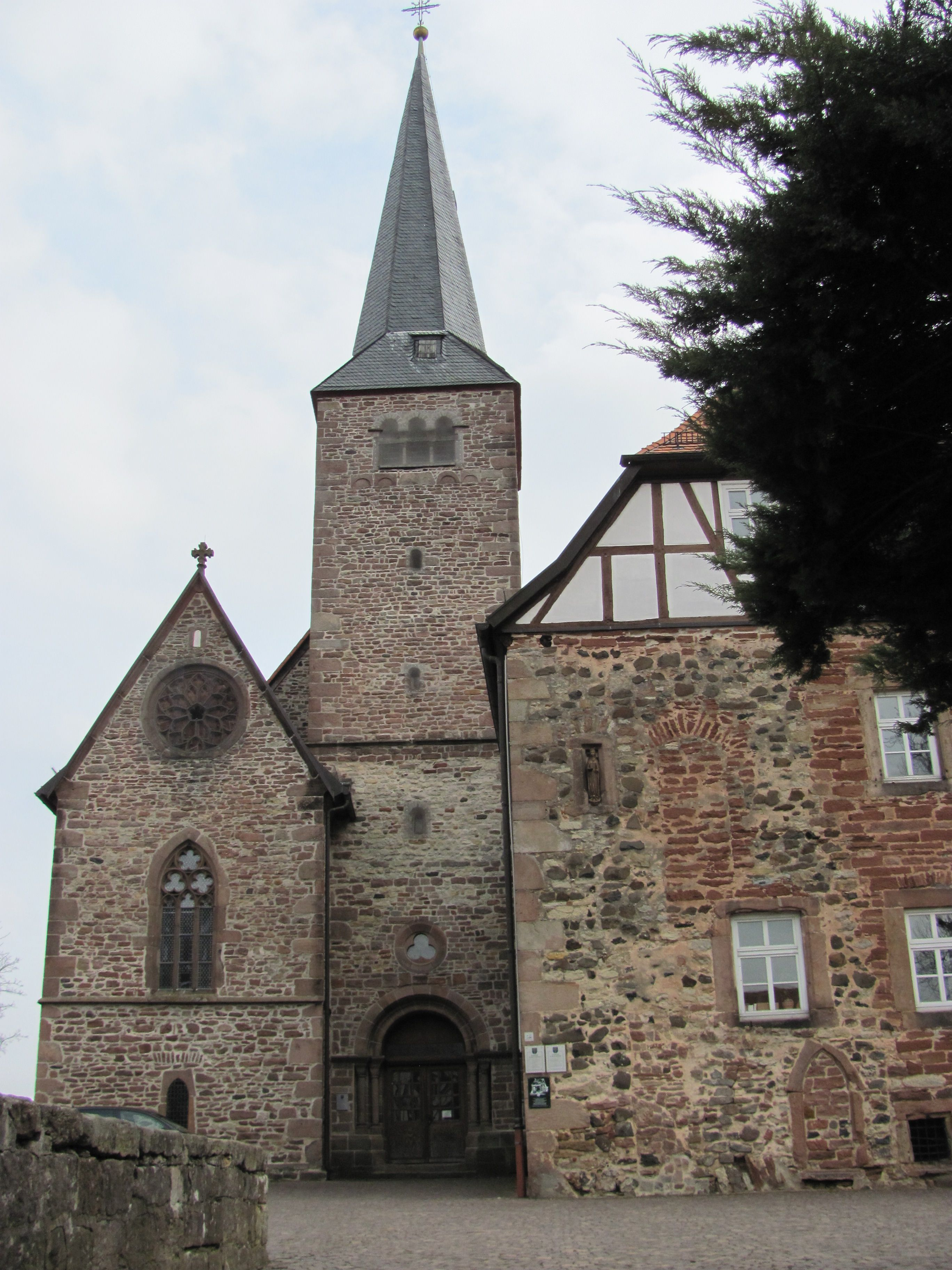 Schlüchtern Monastery, West of Church